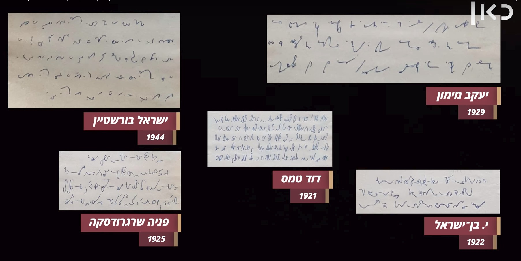 קצרנות